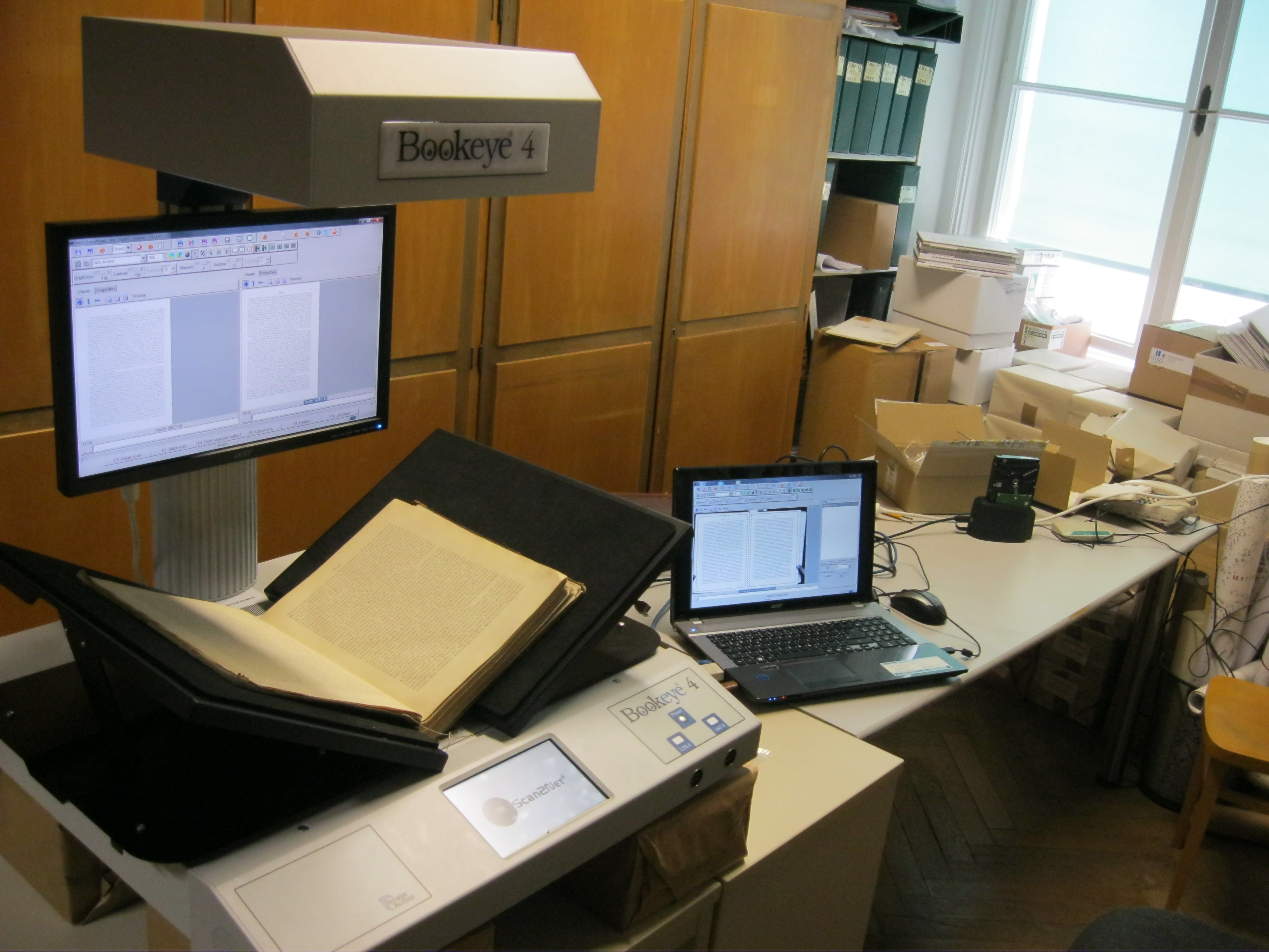 Scan-Projekt CPB-Bookscanner. . This Picture shows the work place woth the Bookeye 4 in the former private residetiial area of Emperor Franz II.. Later it was the private residentiial area of Kronprinz Rudolf. This office was part of the kttchen at this times. This office contains apprx. 4.500 books.and document folders, as a part ofl of 90.000 books from the library of the Office of Cultural Heritage of Austria. Scanprojekt Community Projektbudget 2012 This scan or this PDF-file was created within the GLAM-project Bookscanning, supported by Wikimedia Germany and Wikimedia Austria as a part of the community-project to capture books, documents and pictures which are not eligible to copyright or for which the copyright has expired. This document describes or depicts an object which is located in Austria today. Texts are written German language. Send requests for uncompressed scans to Hubertl. This work is in the public domain in its country of origin and other countries and areas where the copyright term is the author's life plus 100 years or fewer. You must also include a United States public domain tag to indicate why this work is in the public domain in the United States. This file has been identified as being free of known restrictions under copyright law, including all related and neighboring rights.